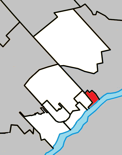 Location of Bois-des-Filion, Quebec within Thérèse-De Blainville Regional County Municipality.